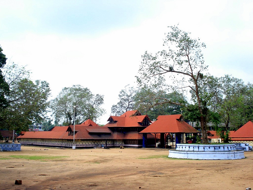 Bhagavathi Temple